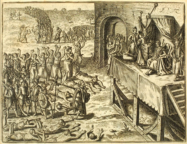 King of Kongo giving audience to Portuguese and his subjects